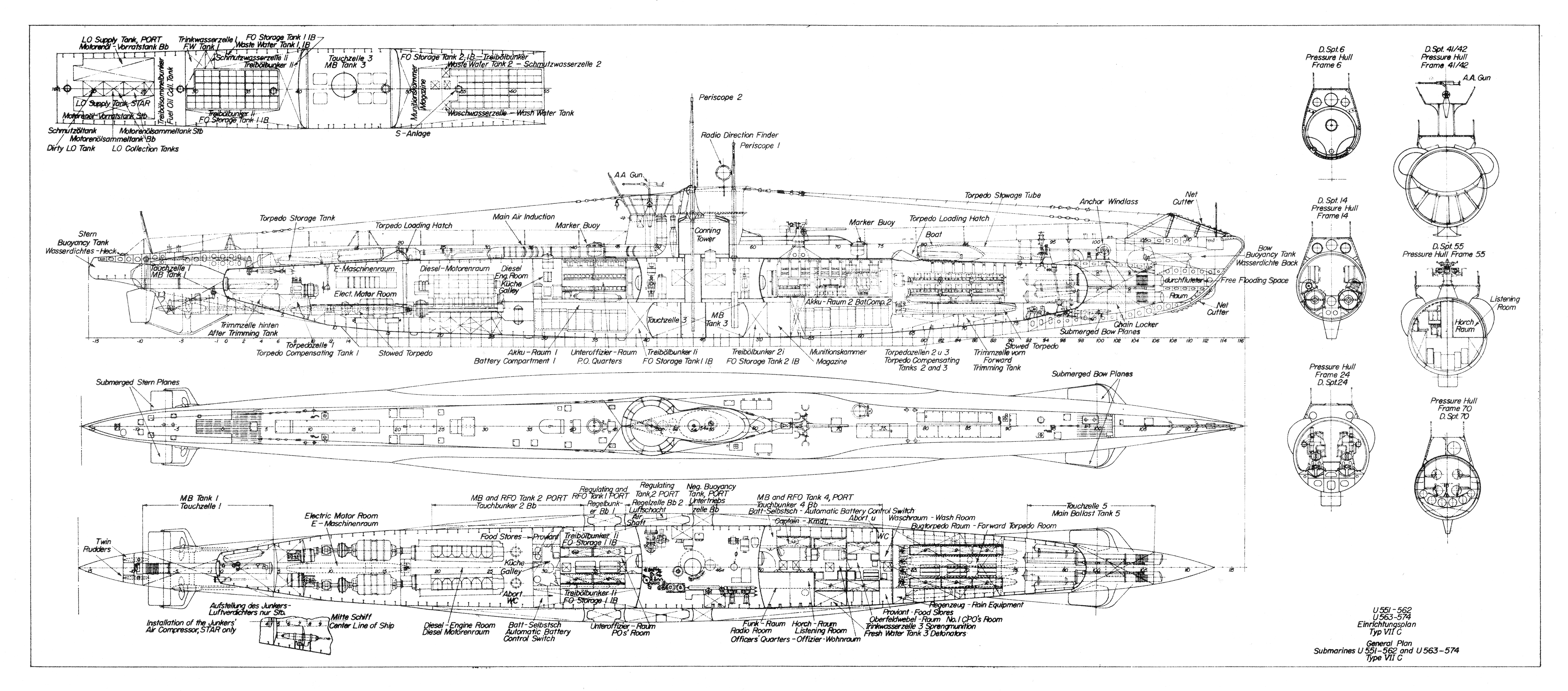 A schematic drawing of a Type VIIC U-boat, more precisely U-570, captured by the British during World War II